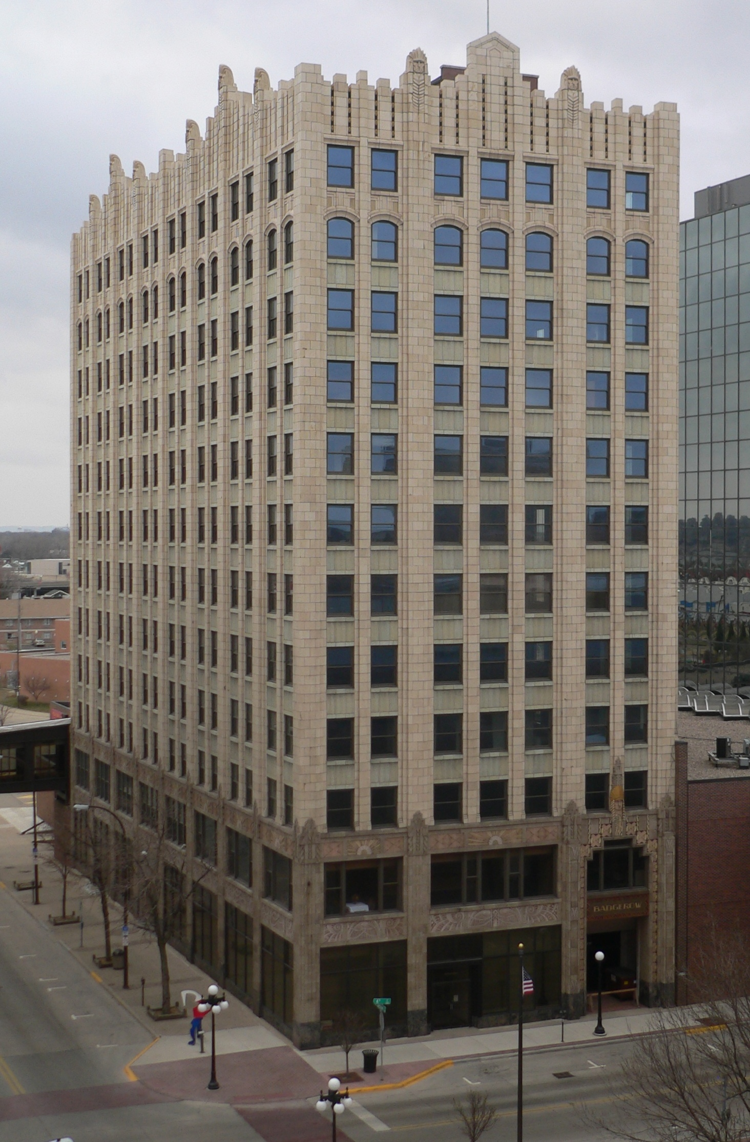 Badgerow Building, located at southwest corner of 4th and Jackson Streets in Sioux City, Iowa; seen from the northeast.